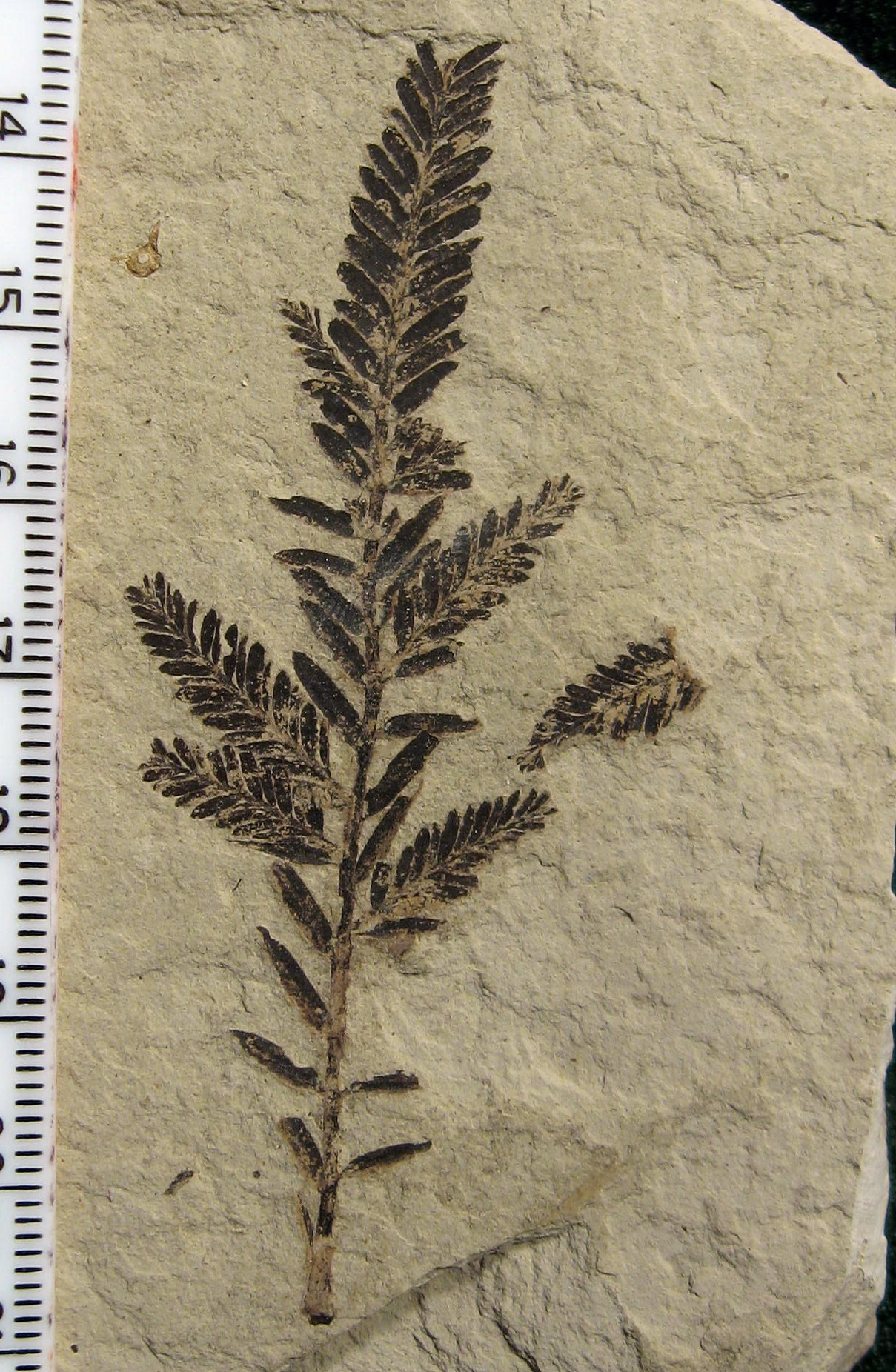 A 8.8cm long Metasequoia occidentalis foliage spray. Klondike Mountain Formation, Republic, Ferry County, Washington, USA, Eocene, Ypresian, 49 million years old. Stonerose Interpretive Center Collection #